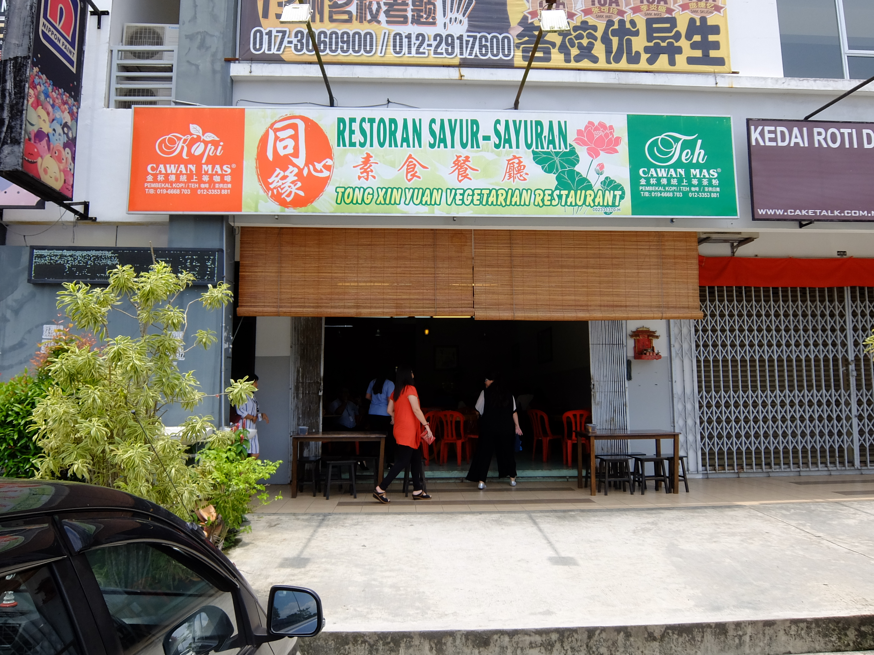 Tong Xin Yuan Vegetarian Restaurant, Setia Eco Gardens, Gelang Patah, Iskandar Puteri, Johor, Malaysia